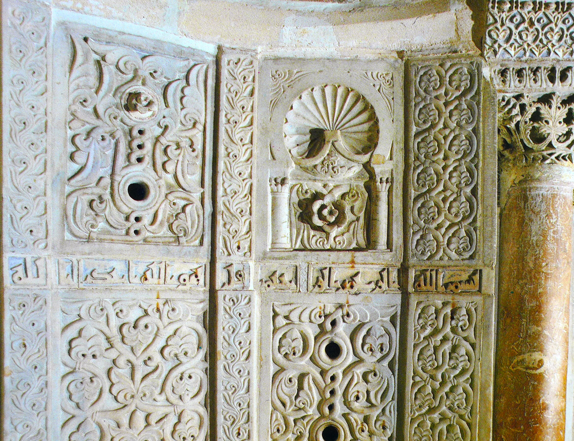 Carved white marble panels of the mihrab of the Great Mosque of Kairouan, Tunisia